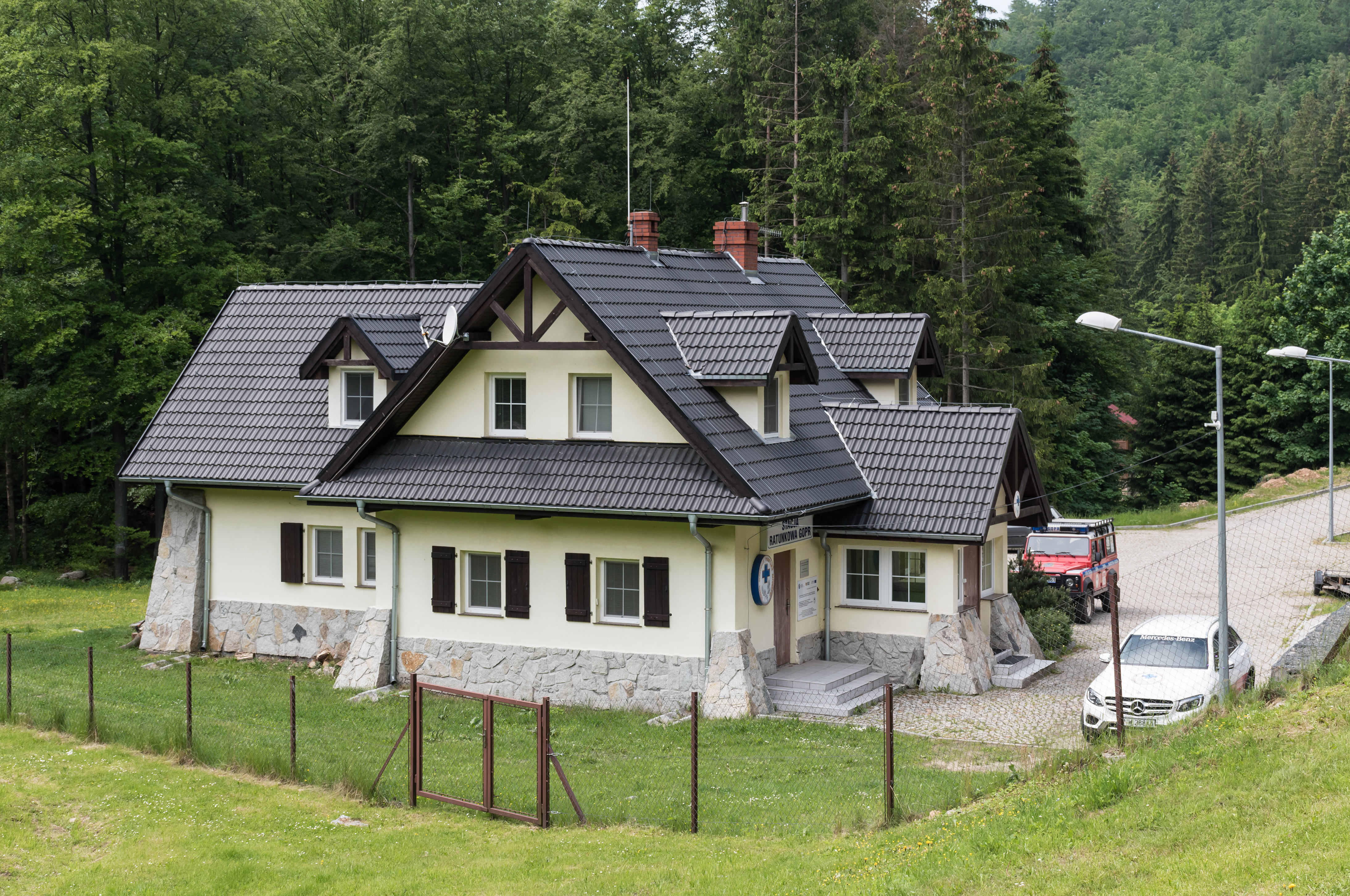 Mountain Rescue Station in Międzygórze